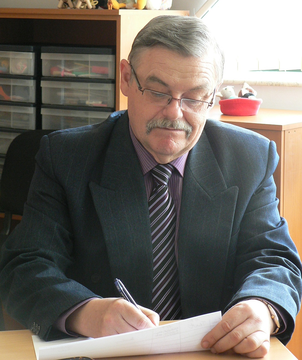 Josef Michaelis (2013)